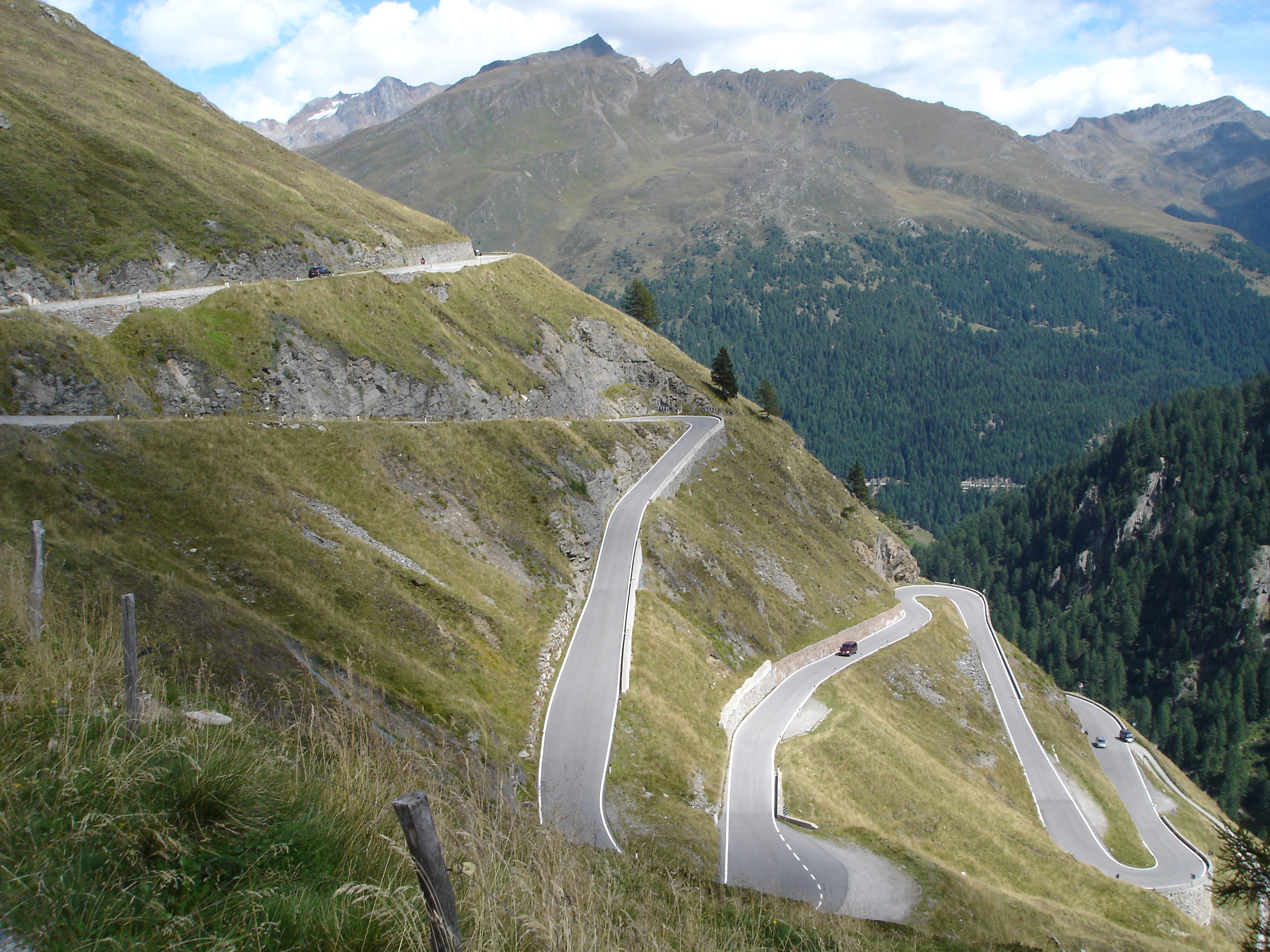 Hairpin turns on the road up to Timmelsjoch on the Italian side.